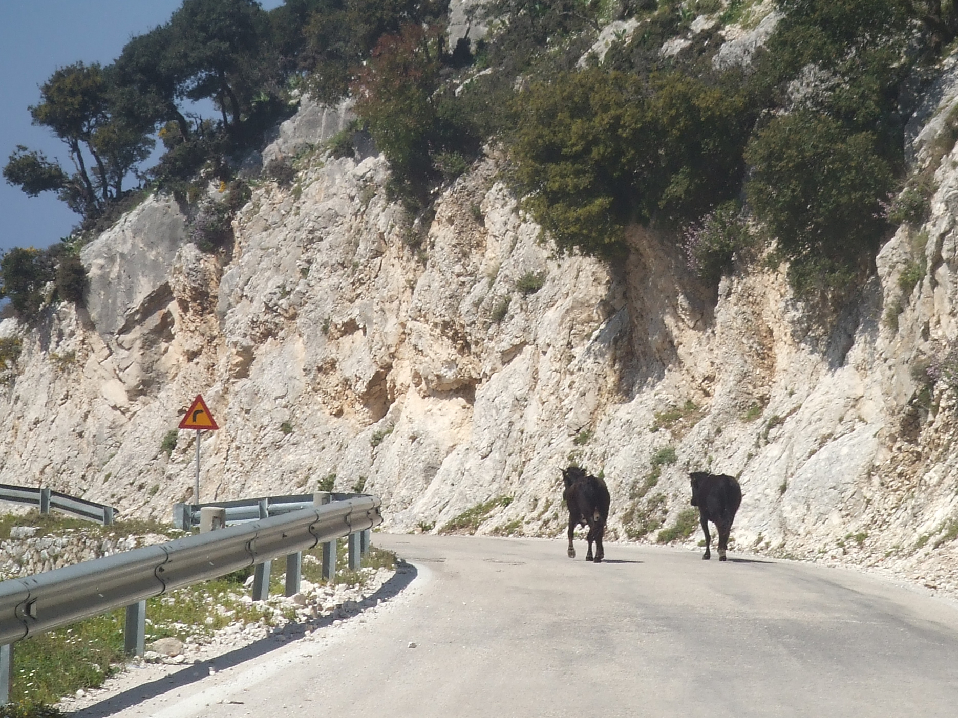 A cow and a bull on a street near Myrtos beach in northern Kefalonia